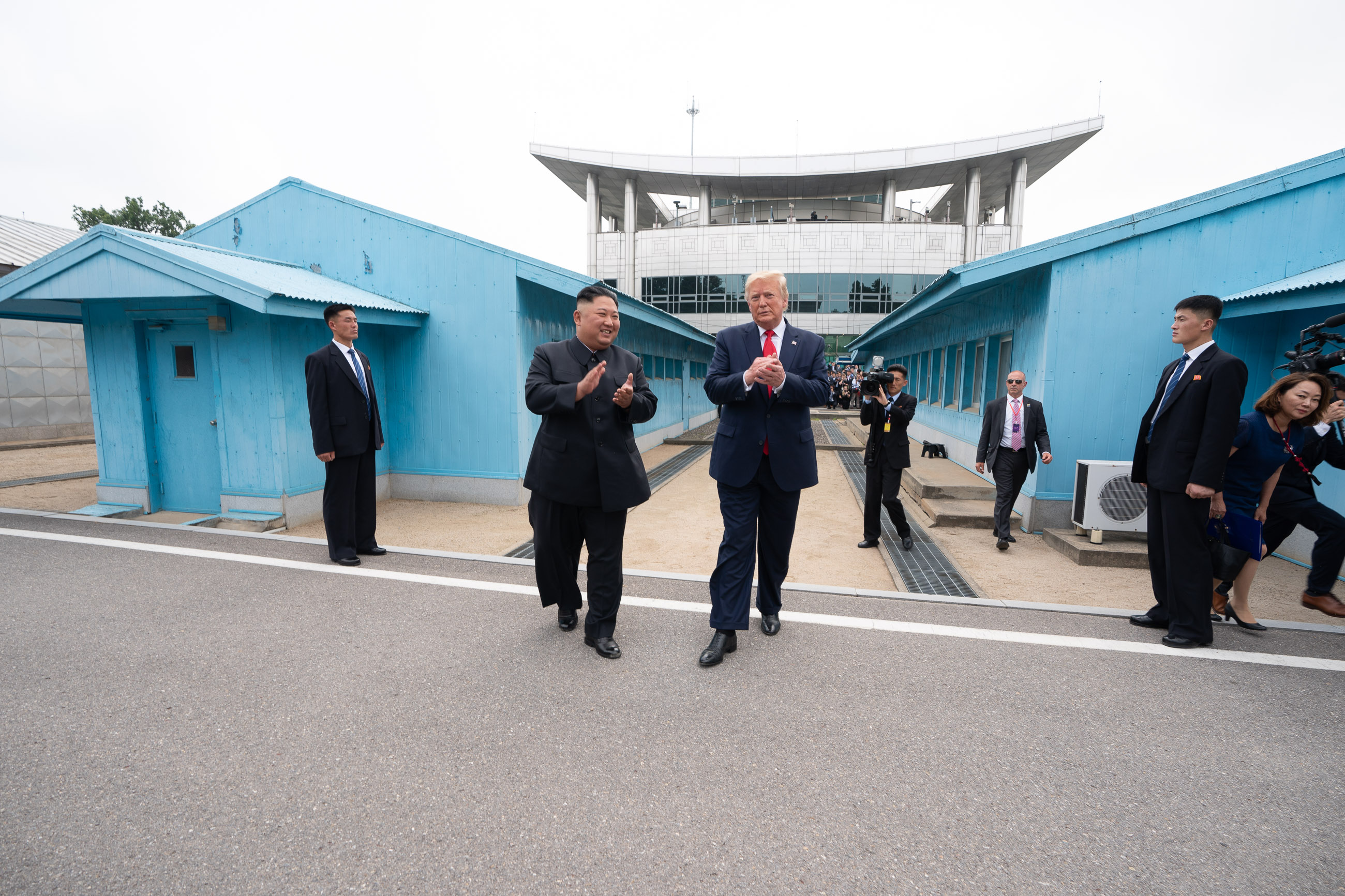 President Donald J. Trump, joined by Chairman of the Workers’ Party of Korea Kim Jong Un, makes history Sunday, June 30, 2019, as he becomes the first sitting U.S. President to step foot on North Korean soil, in his meeting with Chairman Kim Jong Un at the Korean Demilitarized Zone. (Official White House Photo by Shealah Craighead)